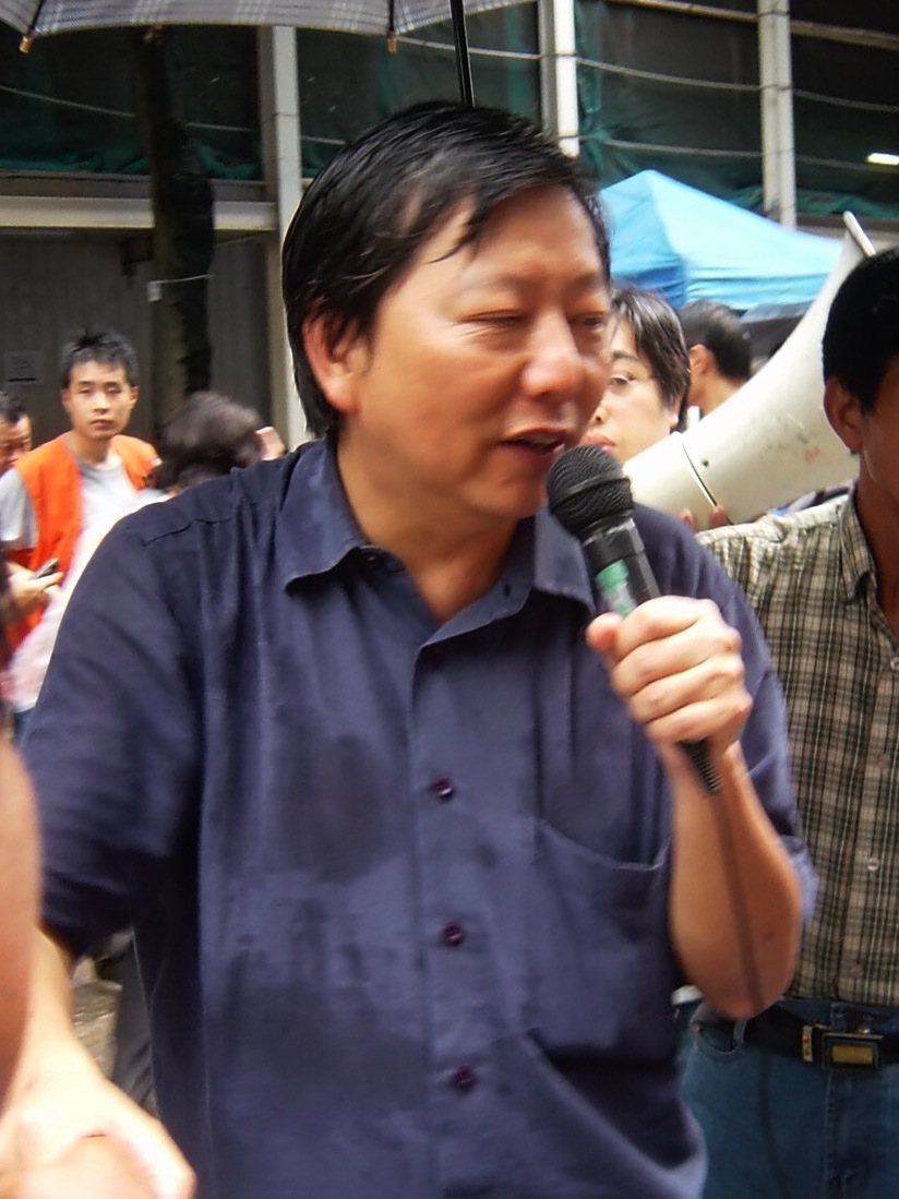 Metal workers' protest in Hong Kong.